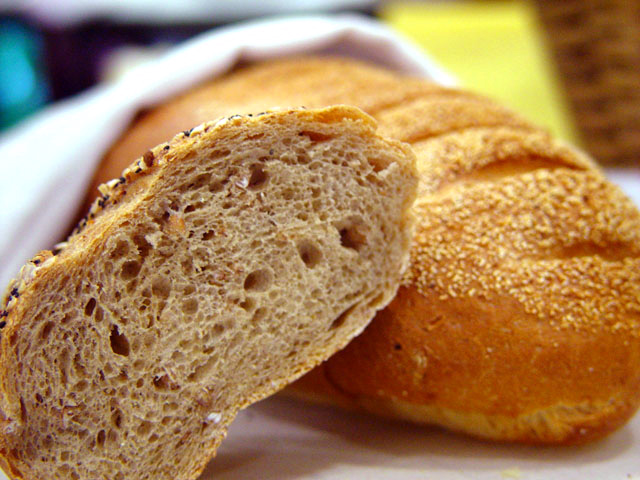 bread